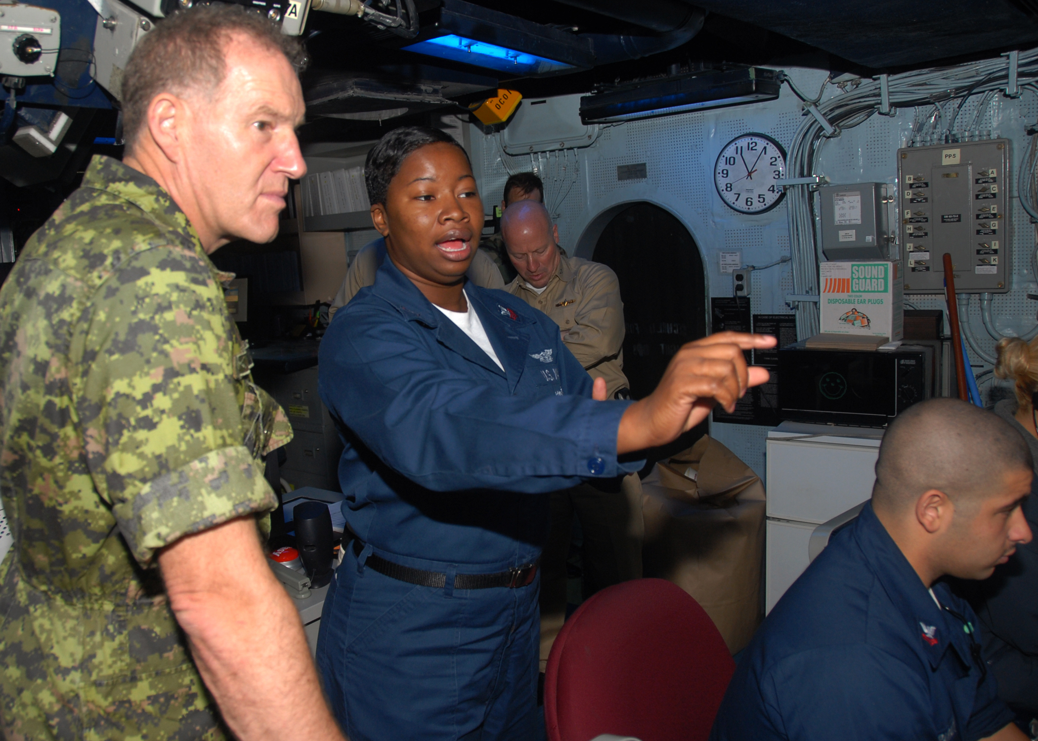 PACIFIC OCEAN (July 27, 2008) Air Traffic Controller 1st Class Erica Banks explains the SPN 43 Radar System to General Walter Natynczyk, Canadian chief of Defense Staff, in the amphibious air traffic control center aboard the amphibious assault ship USS Bonhomme Richard (LHD 6). Natynczyk spent more than four hours touring various spaces aboard Bonhomme Richard to get a better understanding of the Navy's amphibious lift capabilities. Bonhomme Richard is participating in Rim of the Pacific 2008. (U.S. Navy photo by Mass Communication Specialist 2nd Class Justin Webb/Released)